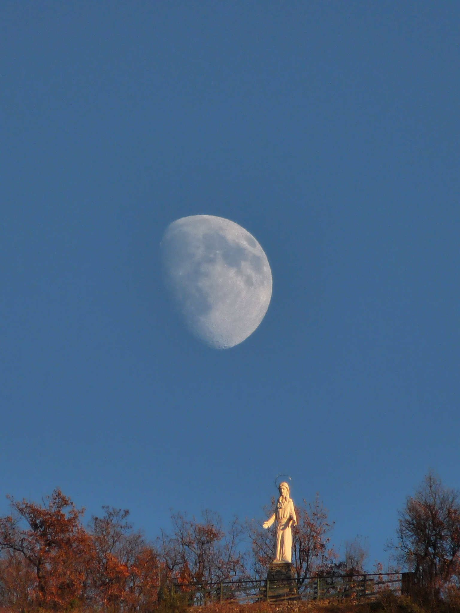 Statue of the Madonna Di Accoglienza, Malcesine, Lake Garda, northern Italy, below the ascending Waxing Gibbous Moon; viewing direction is approximately to the east.